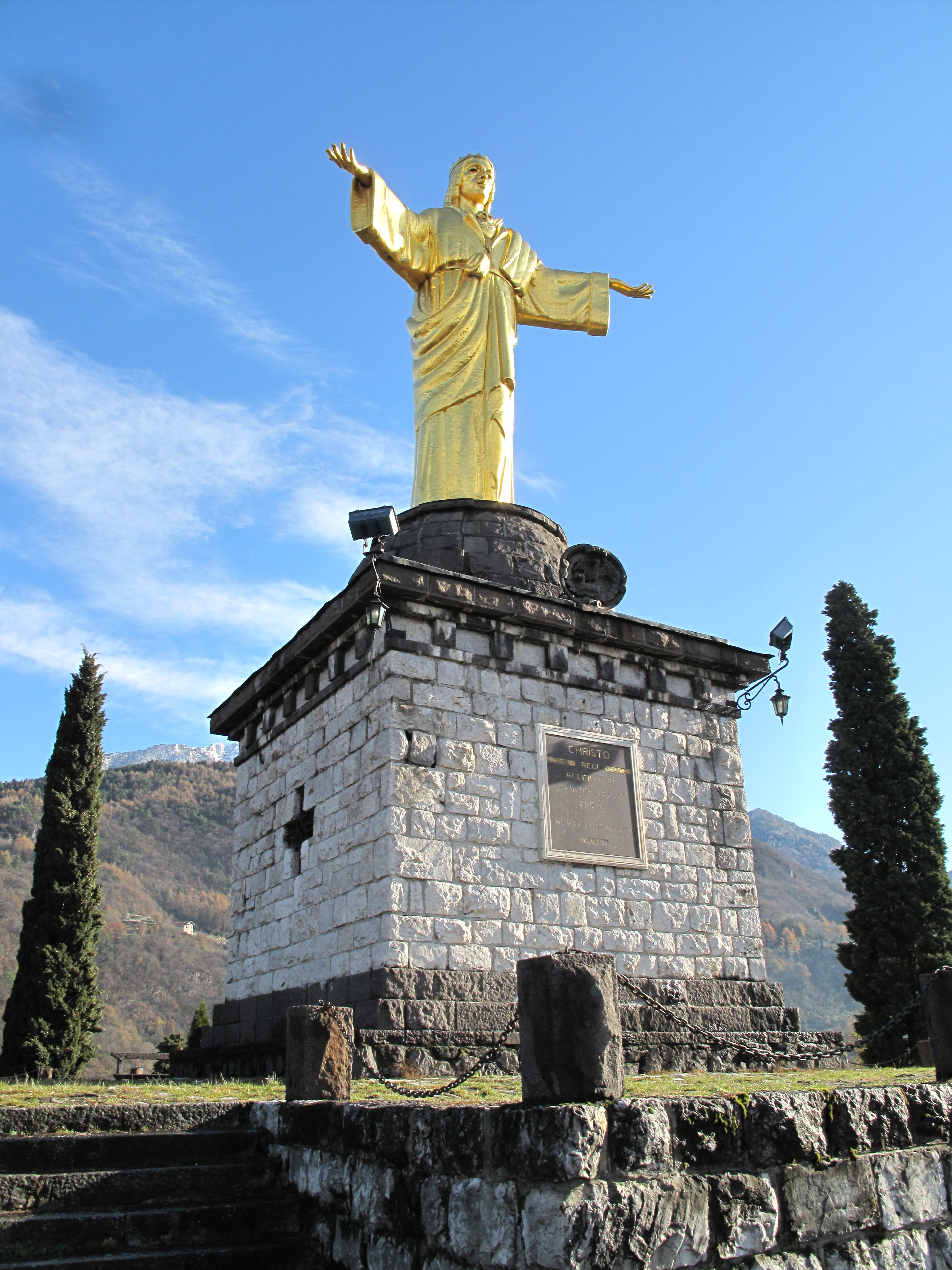 Statue of "Christ King" in Bienno (BS) Italy